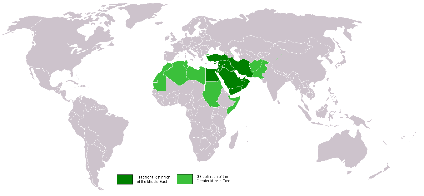 Traditional and G8 greater middle east. The Middle East is all these green + all of East Africa